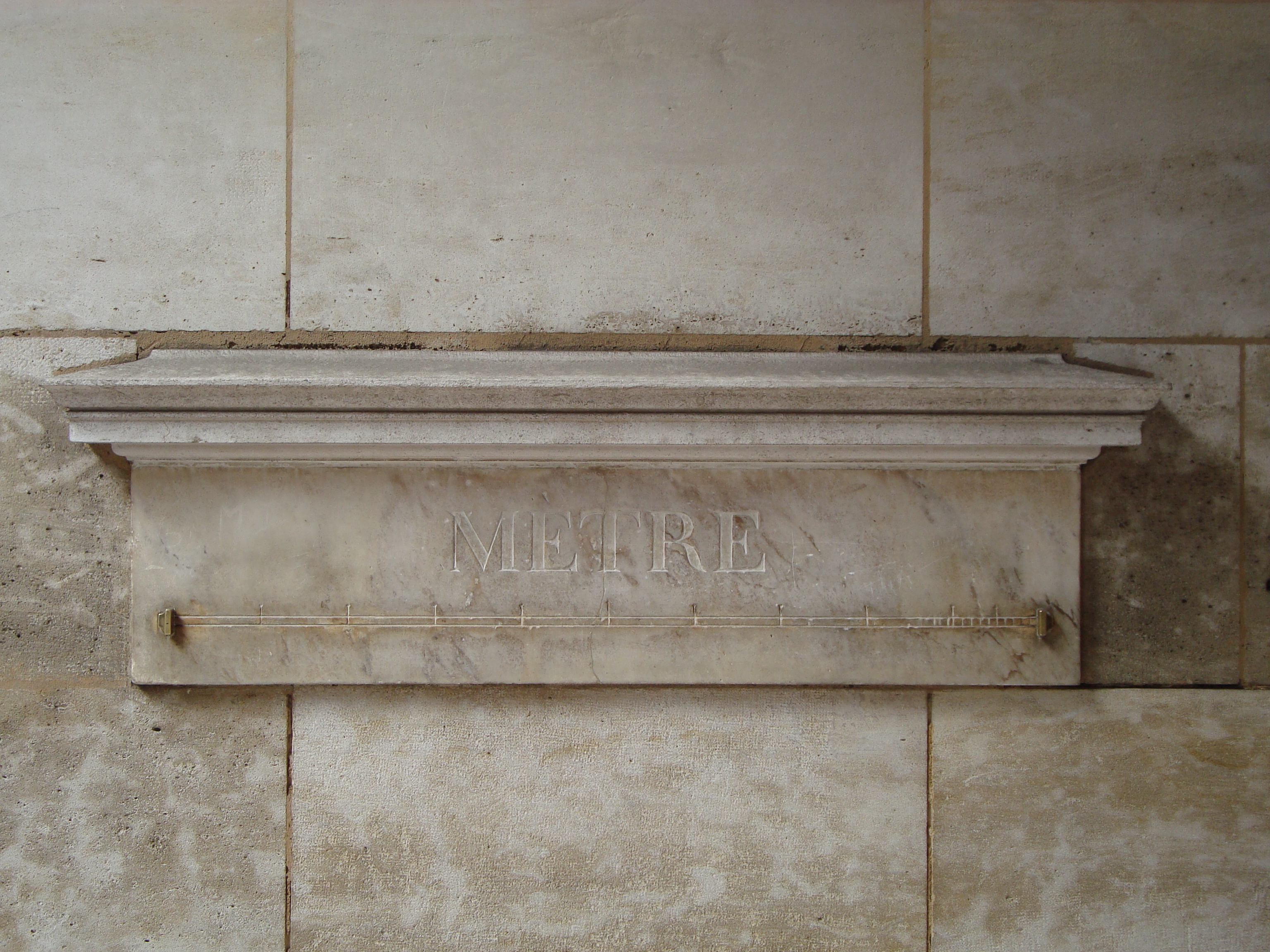 One of the historical (18th century), standard-meter (mètre-étalon) by Chalgrin located at 36, rue de Vaugirard in Paris